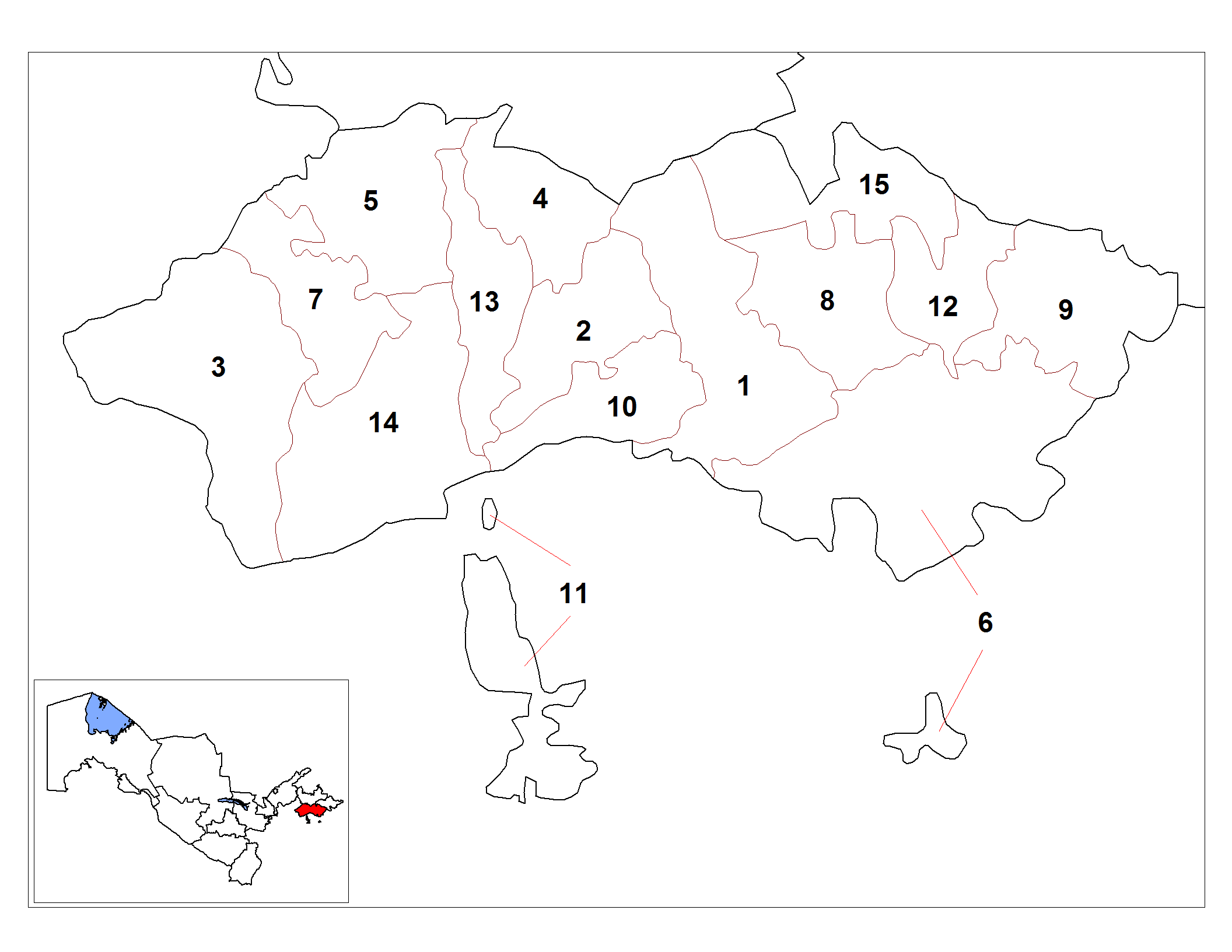 Map of the districts (tuman) of the province (viloyat) of Fergana in Uzbekistan.